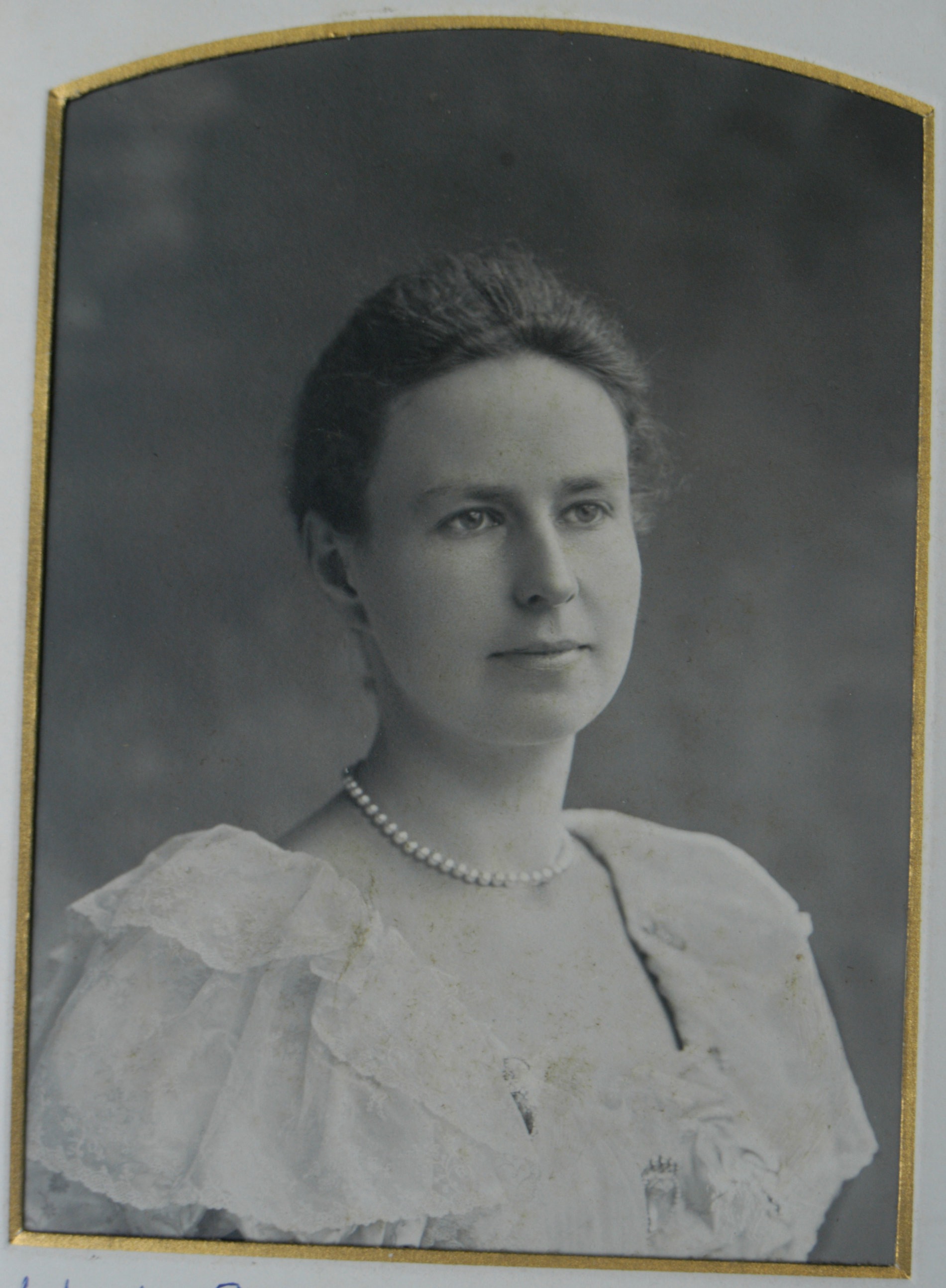 photo (R. de SalisRodolph (talk) 13:36, 1 July 2014 (UTC)) of a circa 1896 photo of Lady Mary Alice Parker (28.6.1863 - 11.1.1930), wife of Bishop Charles Fane-De Salis.